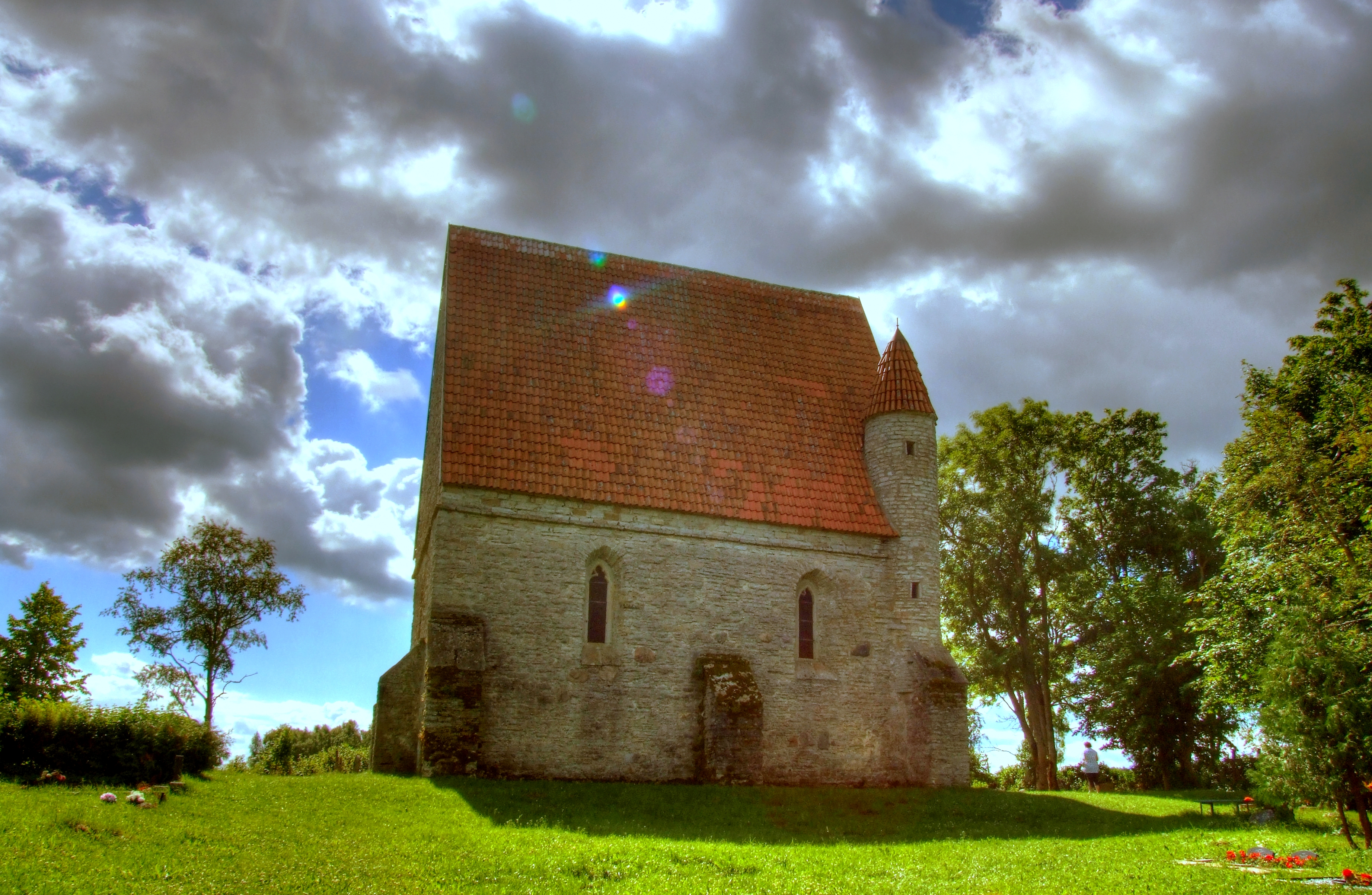 Saha Chapel